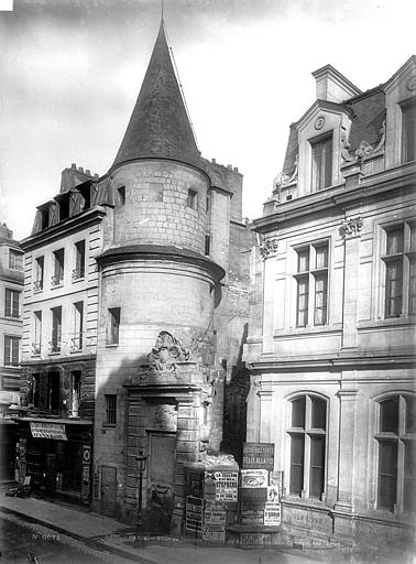 Tour